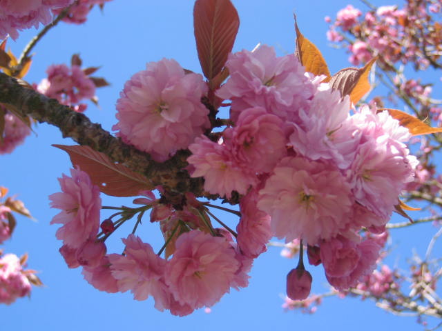 Cherry Blossom